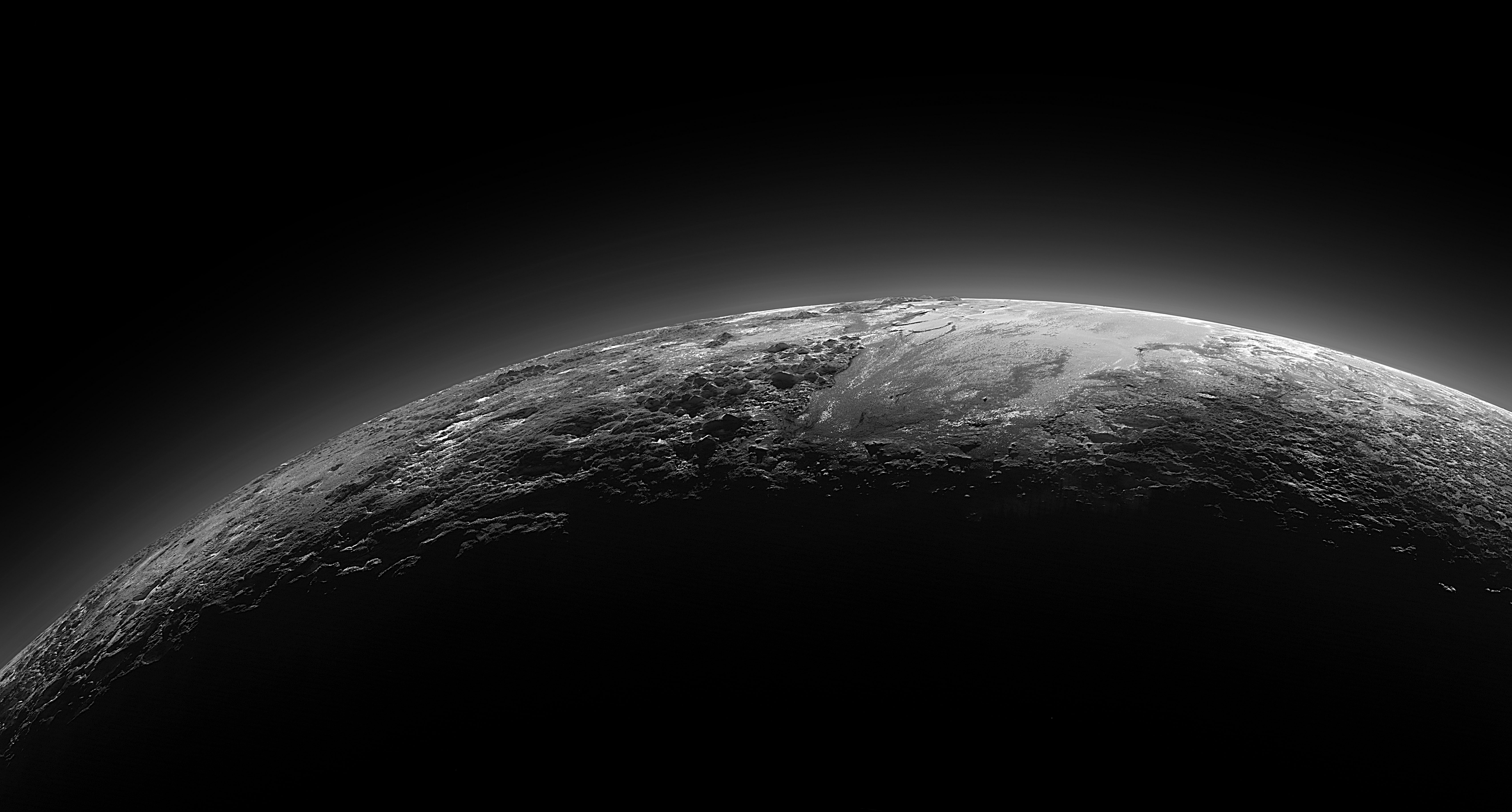 PIA19948: Pluto's Majestic Mountains, Frozen Plains and Foggy Hazes Just 15 minutes after its closest approach to Pluto on July 14, 2015, NASA's New Horizons spacecraft looked back toward the sun and captured this near-sunset view of the rugged, icy mountains and flat ice plains extending to Pluto's horizon. The smooth expanse of the informally named icy plain Sputnik Planum (right) is flanked to the west (left) by rugged mountains up to 11,000 feet (3,500 meters) high, including the informally named Norgay Montes in the foreground and Hillary Montes on the skyline. To the right, east of Sputnik, rougher terrain is cut by apparent glaciers. The backlighting highlights more than a dozen layers of haze in Pluto's tenuous but distended atmosphere. The image was taken from a distance of 11,000 miles (18,000 kilometers) to Pluto; the scene is 780 miles (1,250 kilometers) wide. The Johns Hopkins University Applied Physics Laboratory in Laurel, Maryland, designed, built, and operates the New Horizons spacecraft, and manages the mission for NASA's Science Mission Directorate. The Southwest Research Institute, based in San Antonio, leads the science team, payload operations and encounter science planning. New Horizons is part of the New Frontiers Program managed by NASA's Marshall Space Flight Center in Huntsville, Alabama.